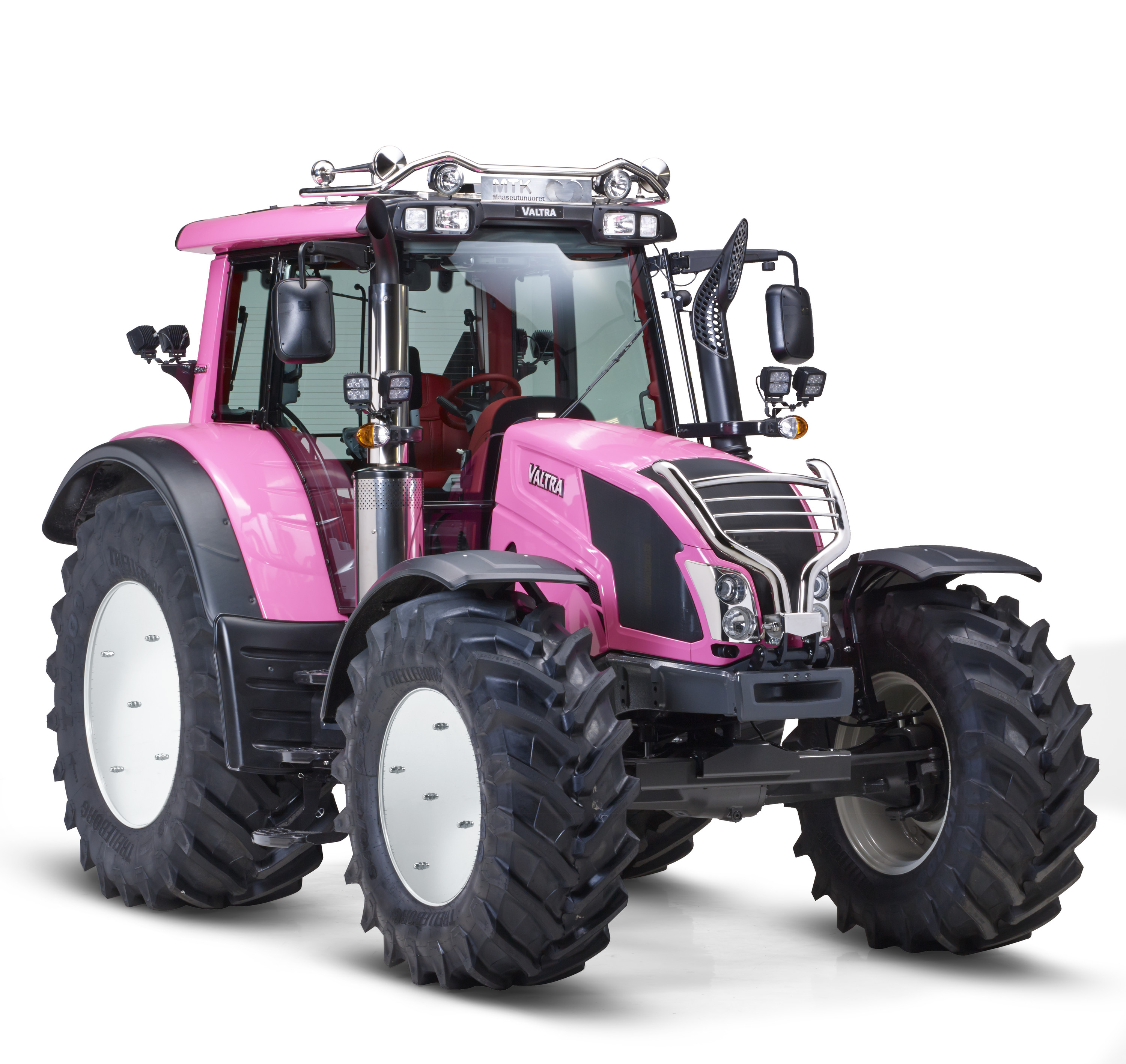 Valtra N163 Direct nicknamed as Pink Cat was tailored in Unlimited Studio for Young Farmers organization.